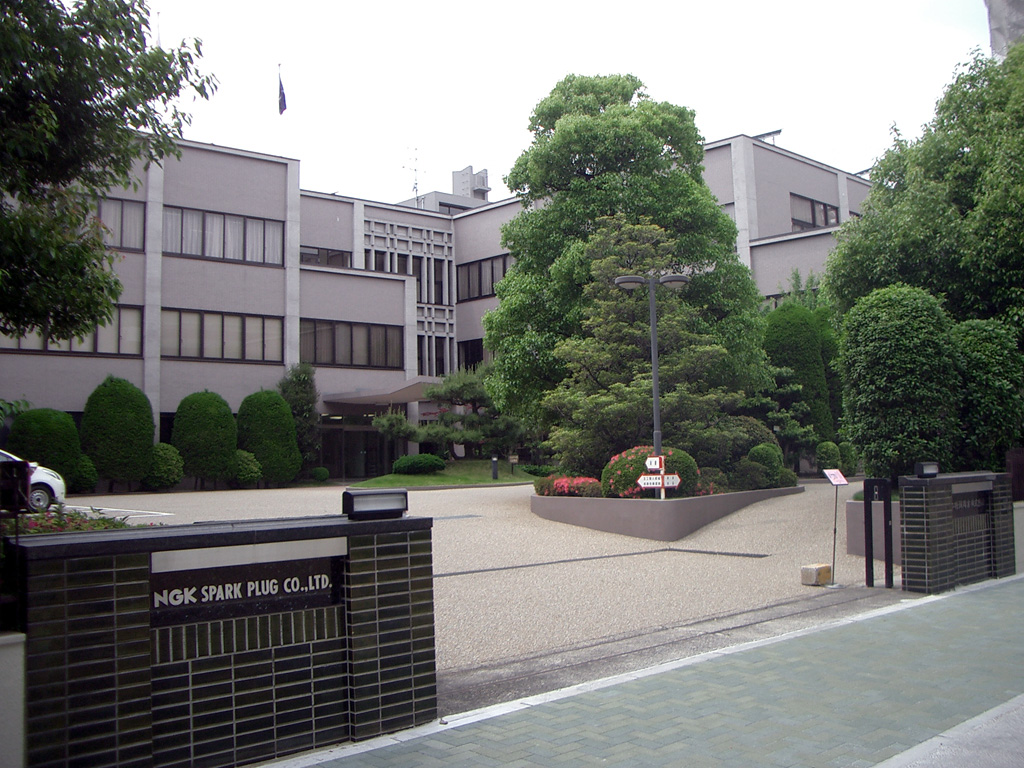 The head office of NGK SPARK PLUG Co.,LTD.